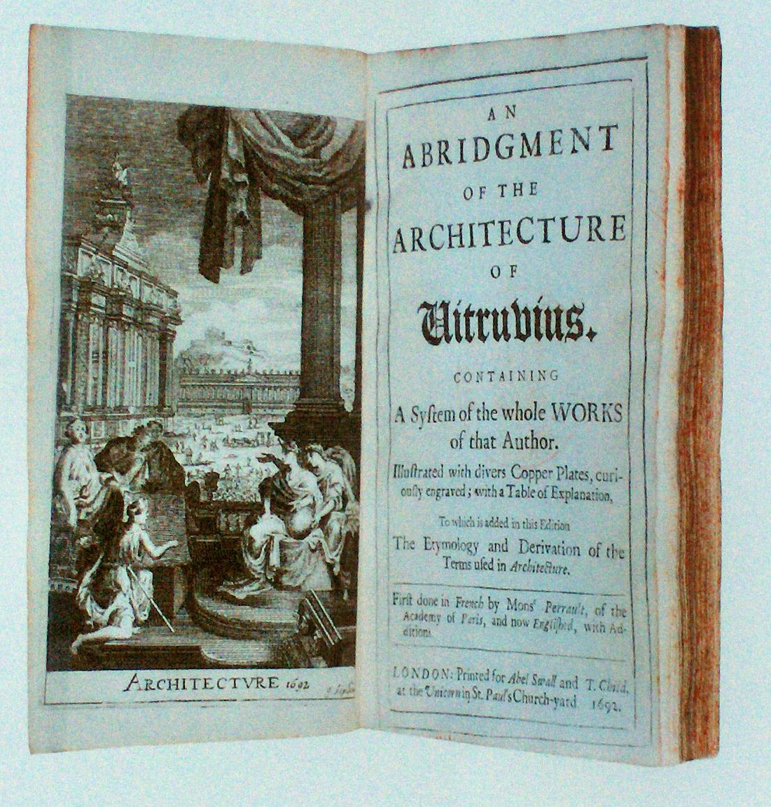 "De Architectura" by Vitruvius; first English translation, based on the French translation by Claude Perrault; printed by Abel Swall and T. Child, 1692; Royal Institute of British Architects, London (on exhibition in Brussels); Original title "An Abridgment of the Architecture of Vitruvius"